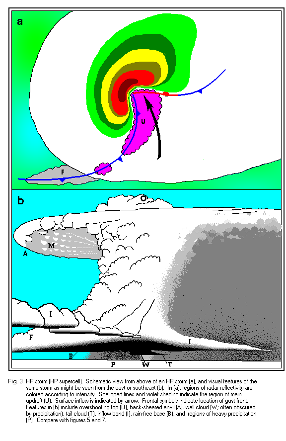 An idealized schematic of a high-precipitation (HP) supercell thunderstorm.